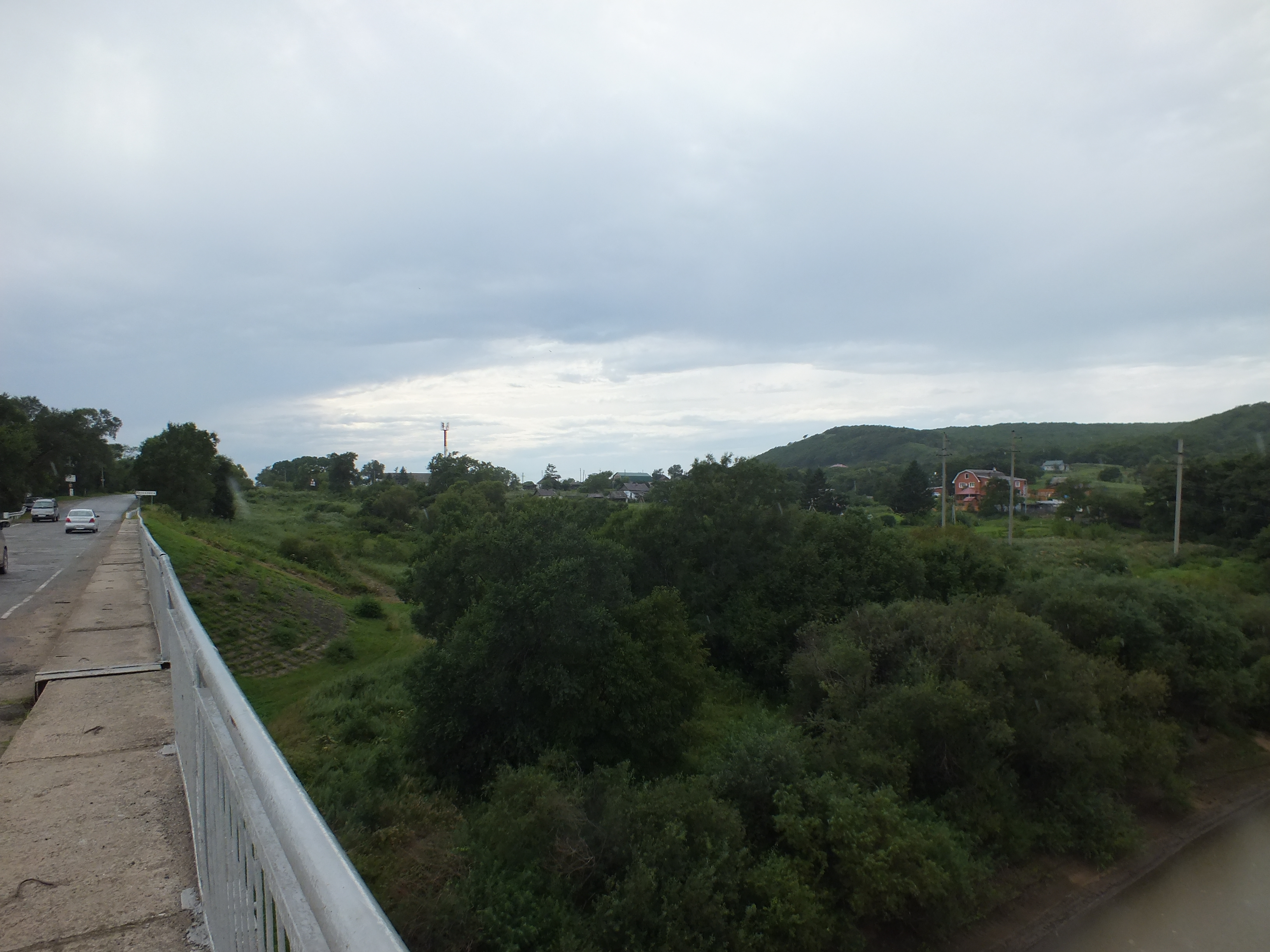 Terekhovka Primorskiy kray